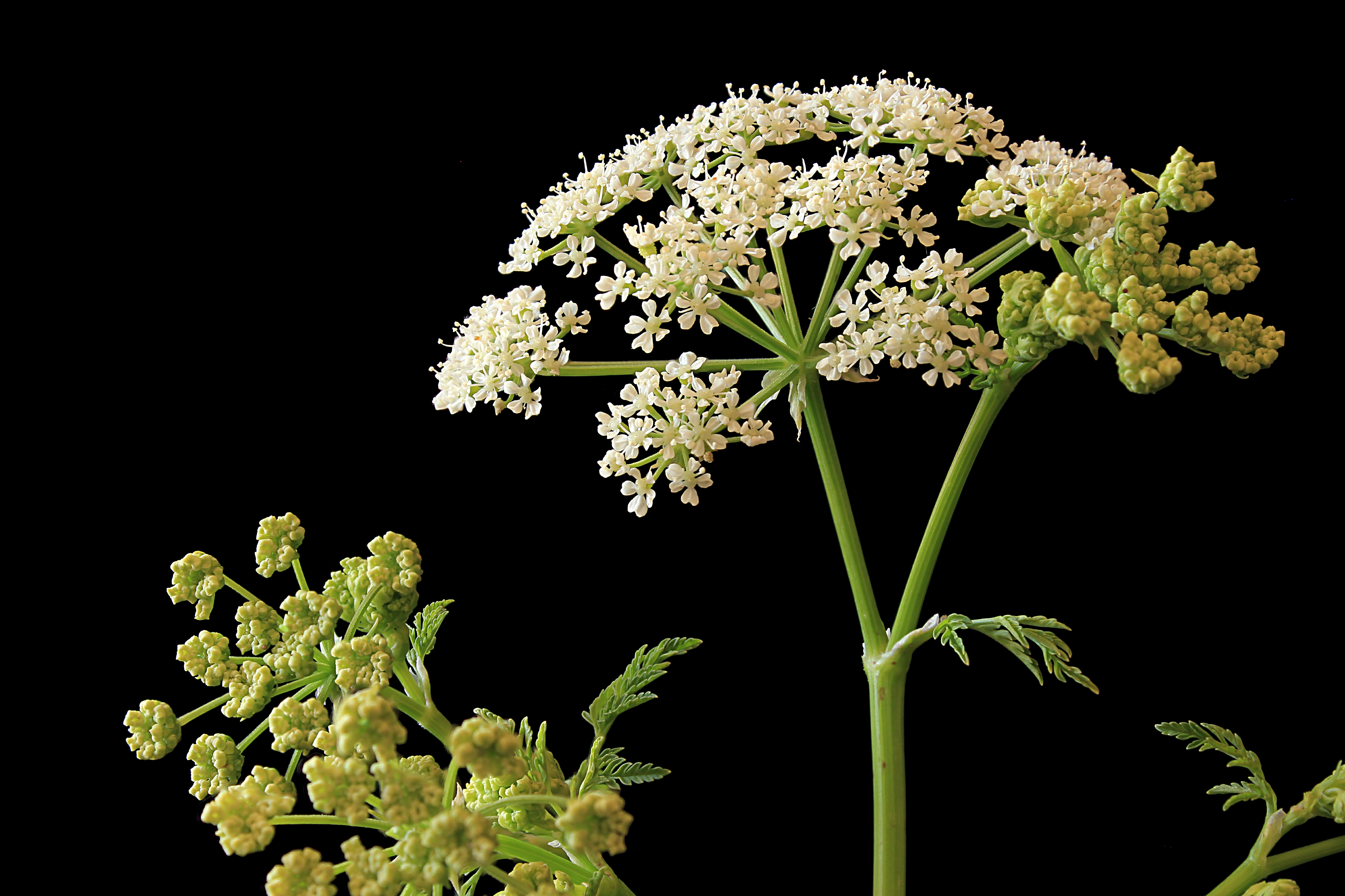 Tiny white flowers of poisonous hemlock on umbrella-like shape